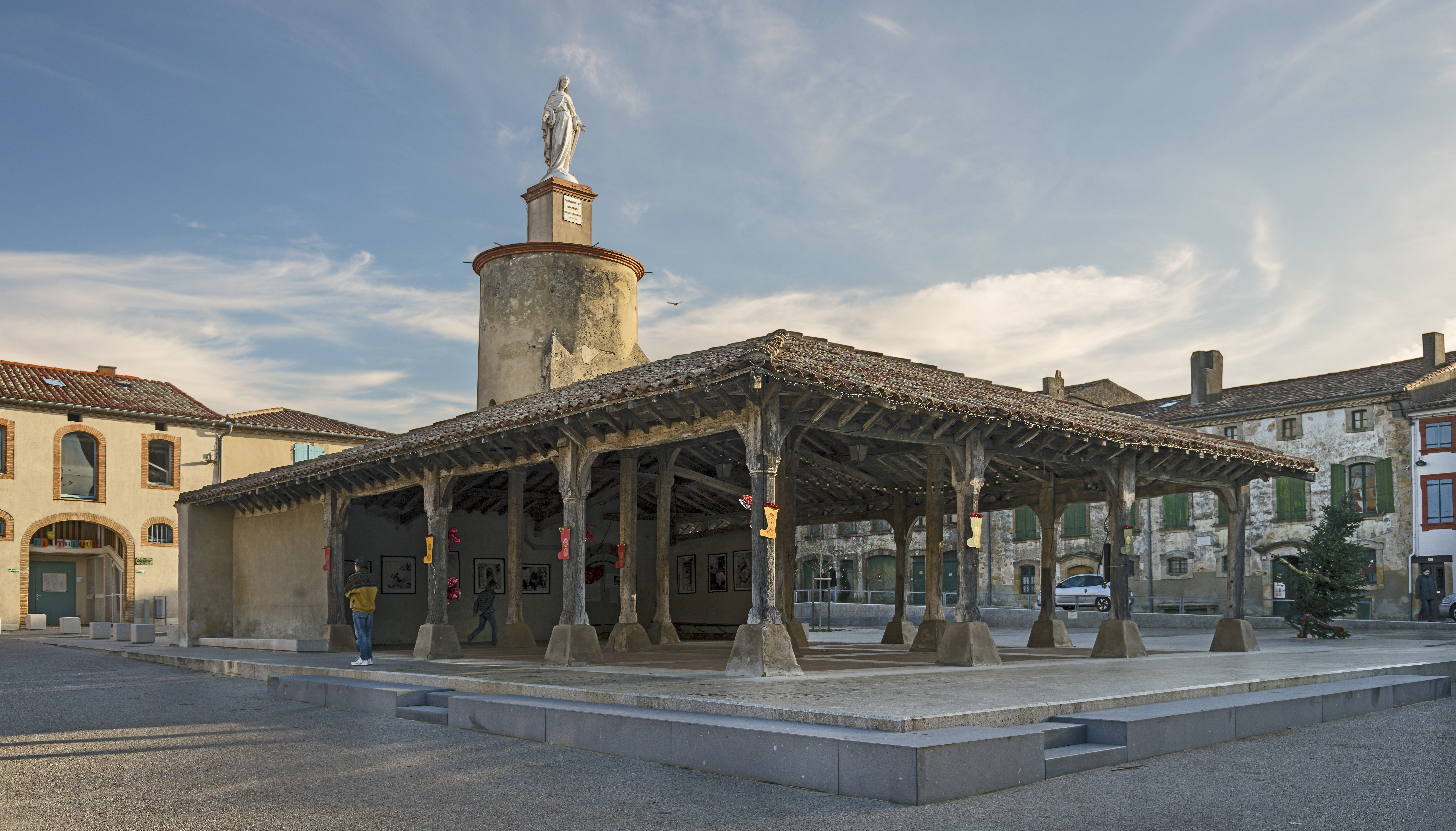 Saint-Félix-Lauragais. The covered market Town Hall Square, fifteenth century. it consists of sixteen octagonal wooden pillars with stone keys. Bases and capitals are molded, and support the quarries and farms of the roof. A tower is adjoining the hall on Southeast side.